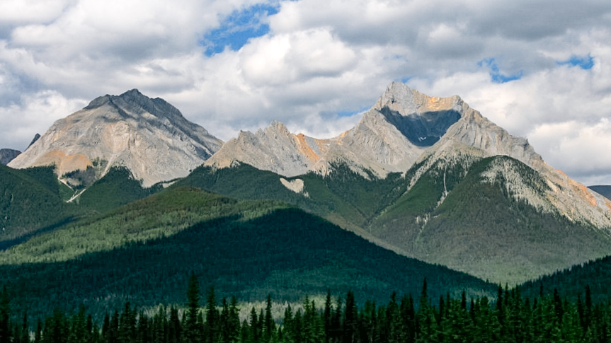 Kootenay National Park of Canada. View to the Southeast from the view point near Sinclair Pass.